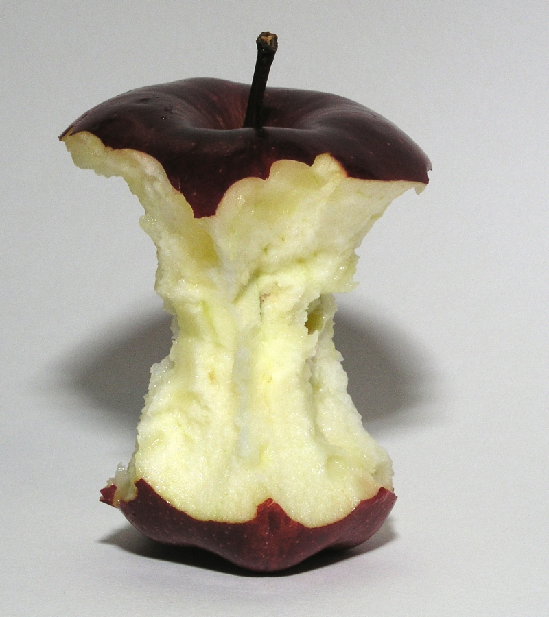 Apple Stark